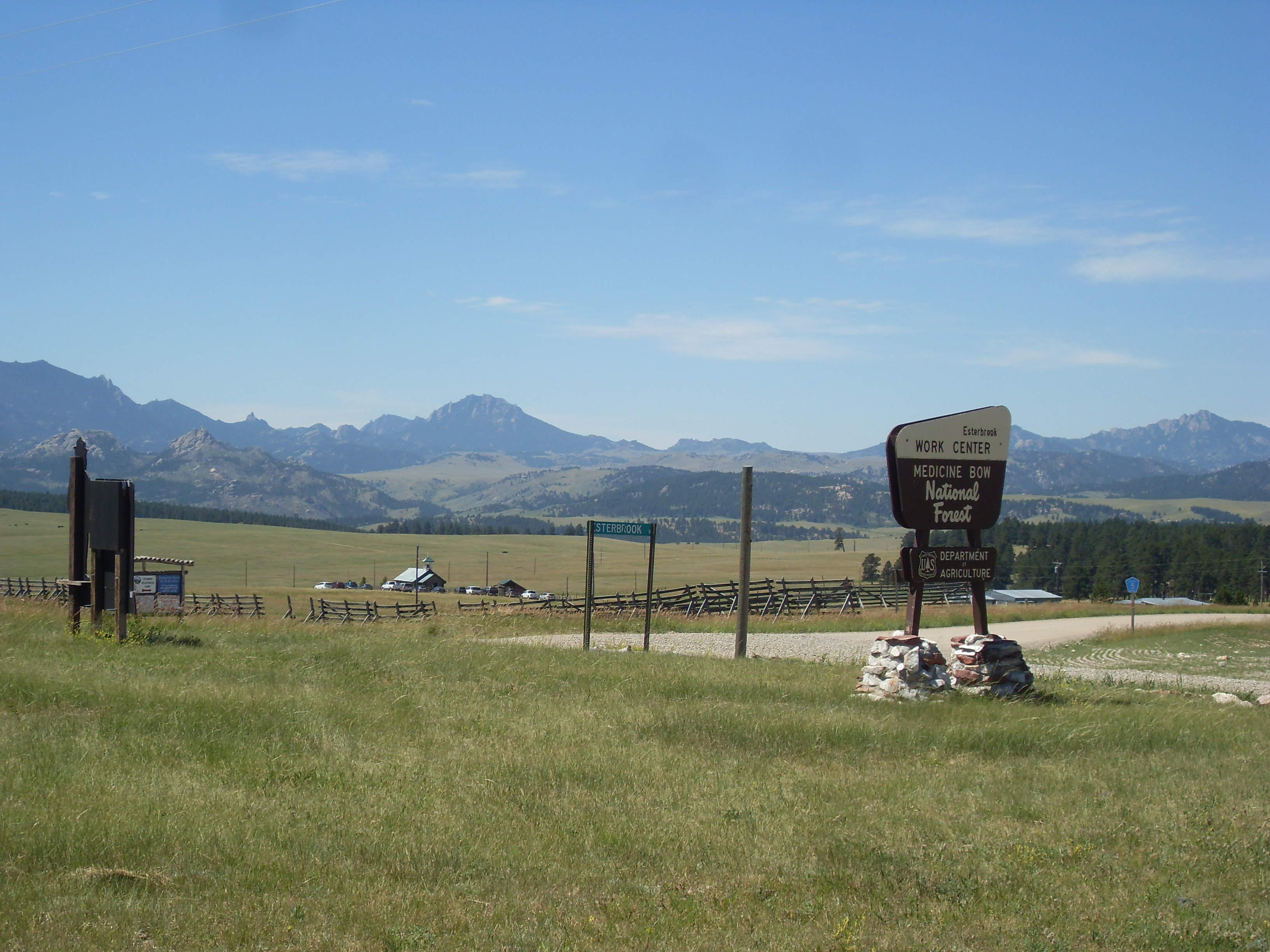 Medicine Bow National Forrest (Work center) in Esterbrook, Wyoming, USA